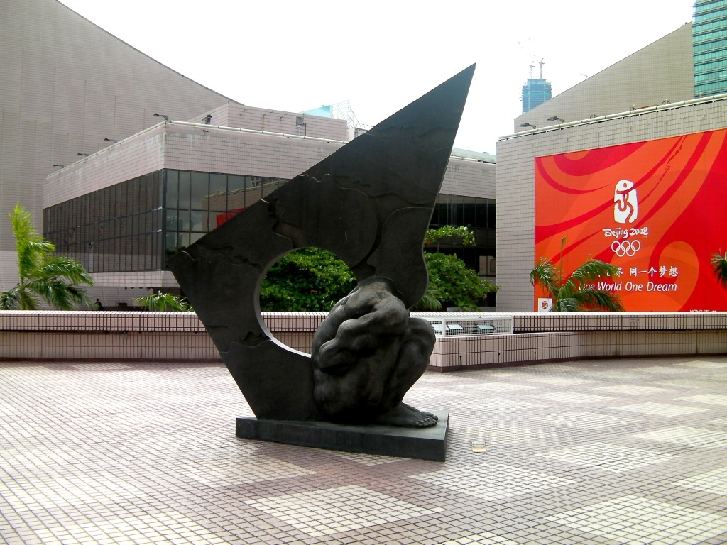 I took this photo myself in Hong Kong, 2008